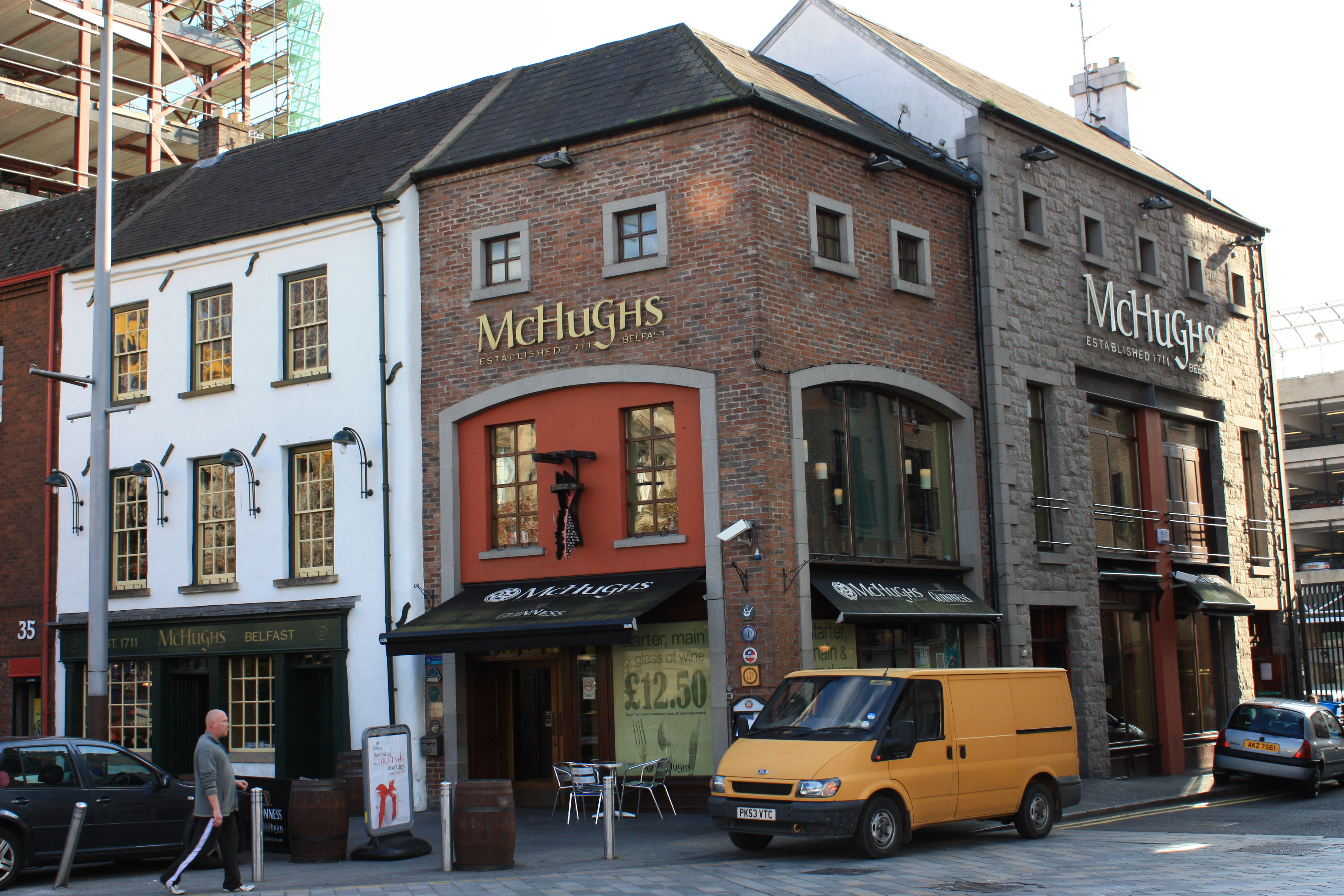 McHugh's Bar and Restaurant, Queen's Square, Belfast, Northern Ireland, October 2009